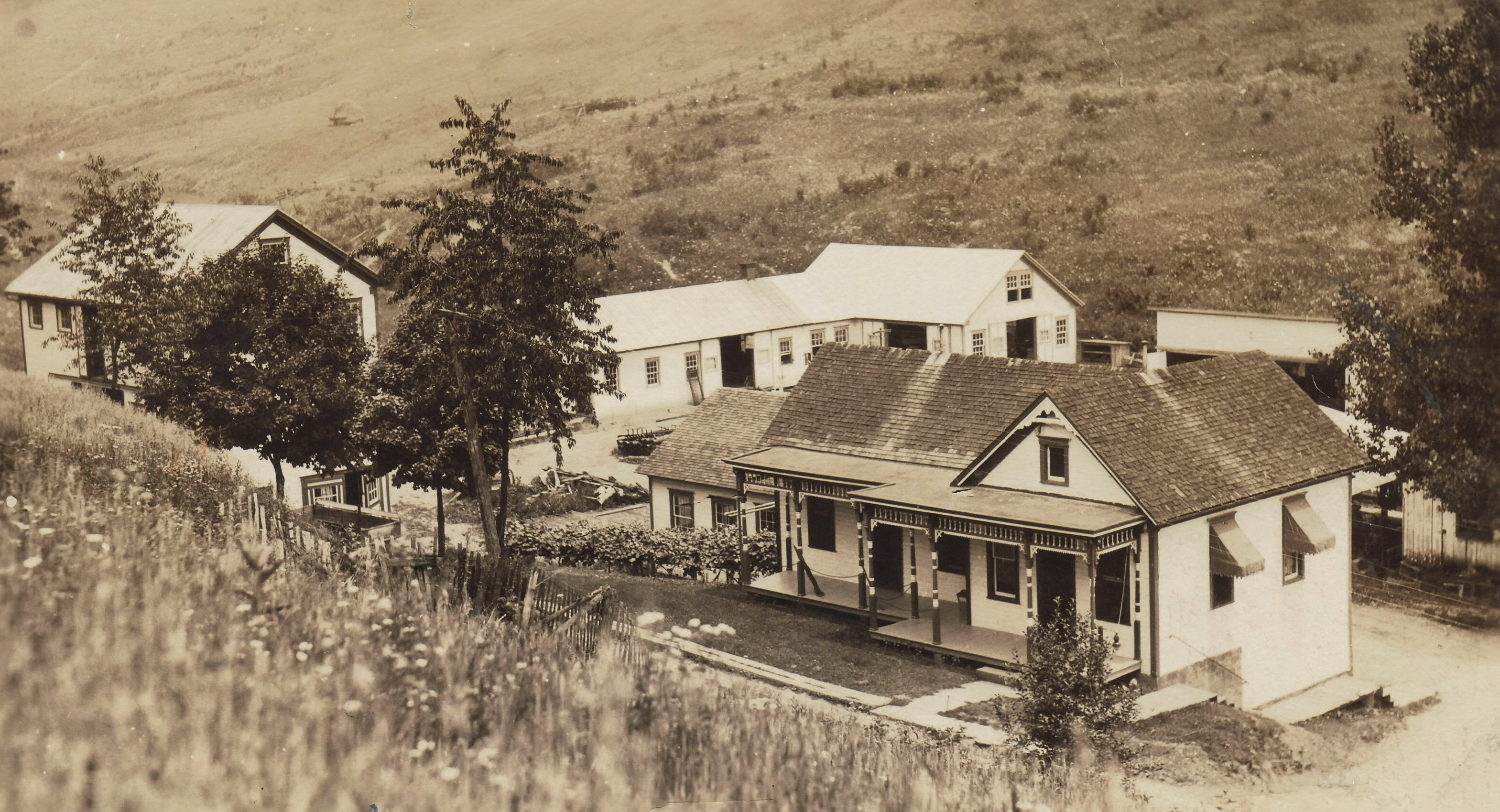 Gas company office at Graysville, Gray Township, Greene County, Pennsylvania. Part of the Candice Lynn Buchanan Collection at Greene Connections on Flickr